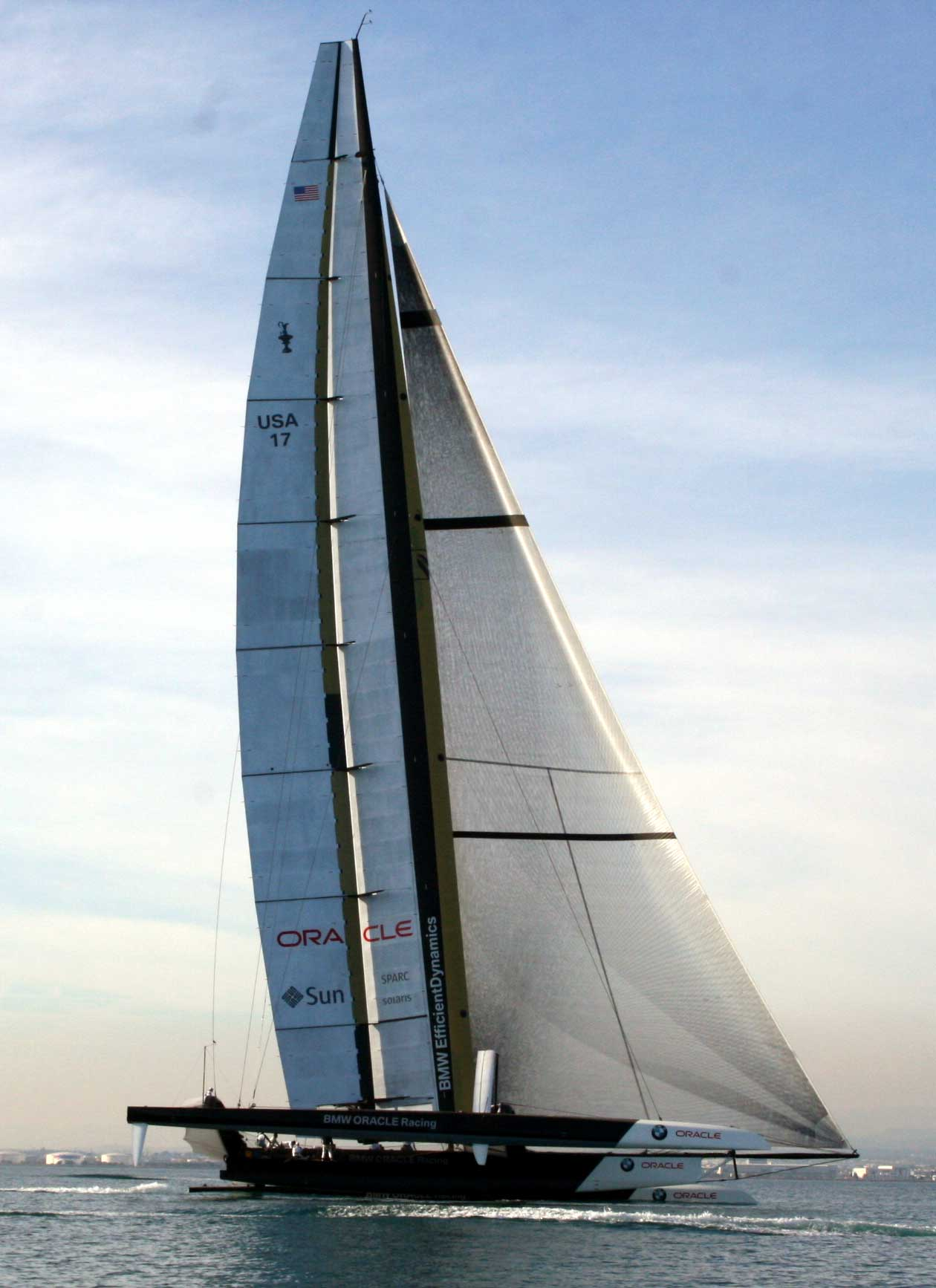 The BMW Oracle Racing America's Cup yacht USA-17 sailing off of Valencia, Spain on January 22, 2010